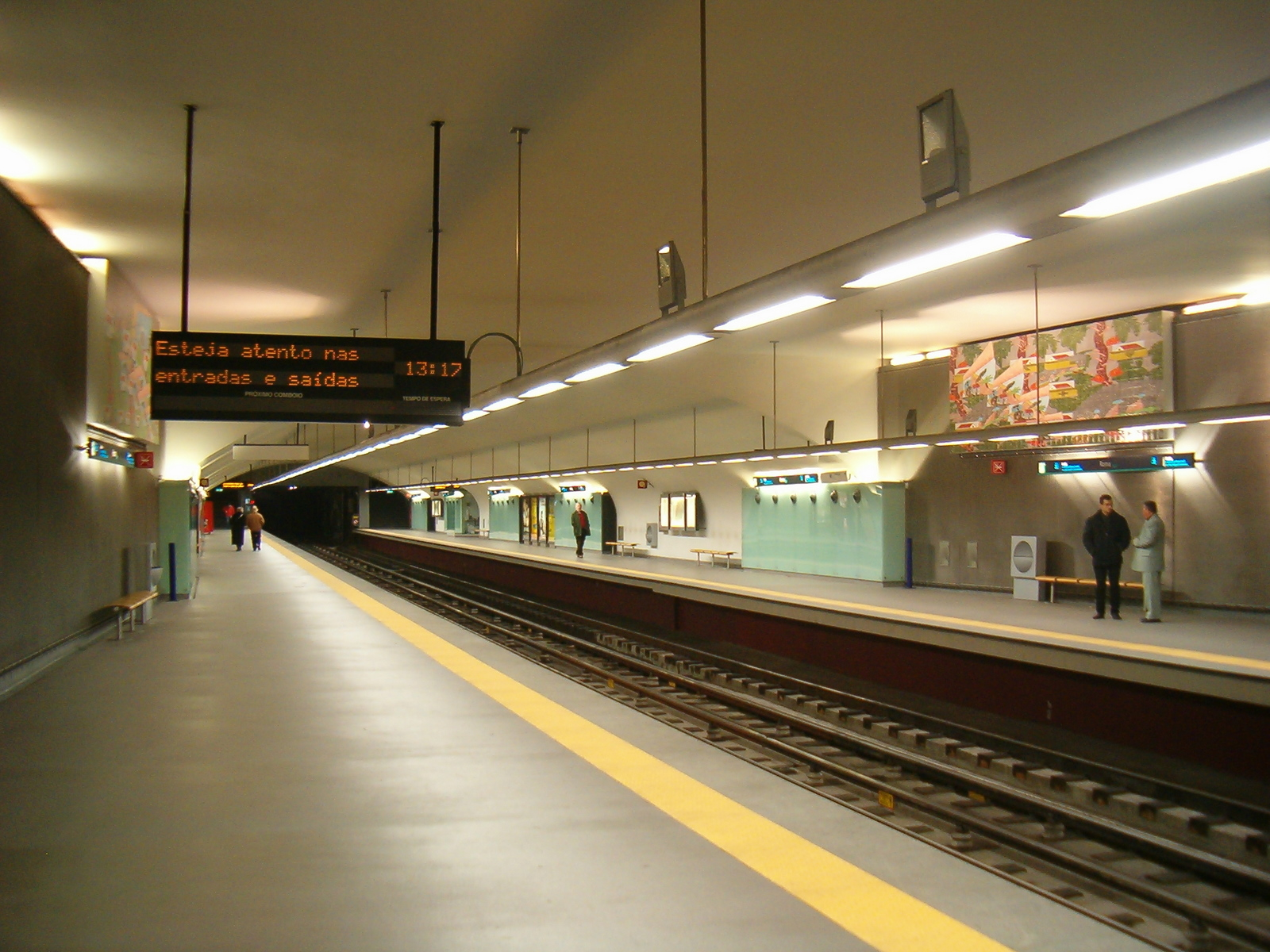 Metro station Roma (Lisboa)